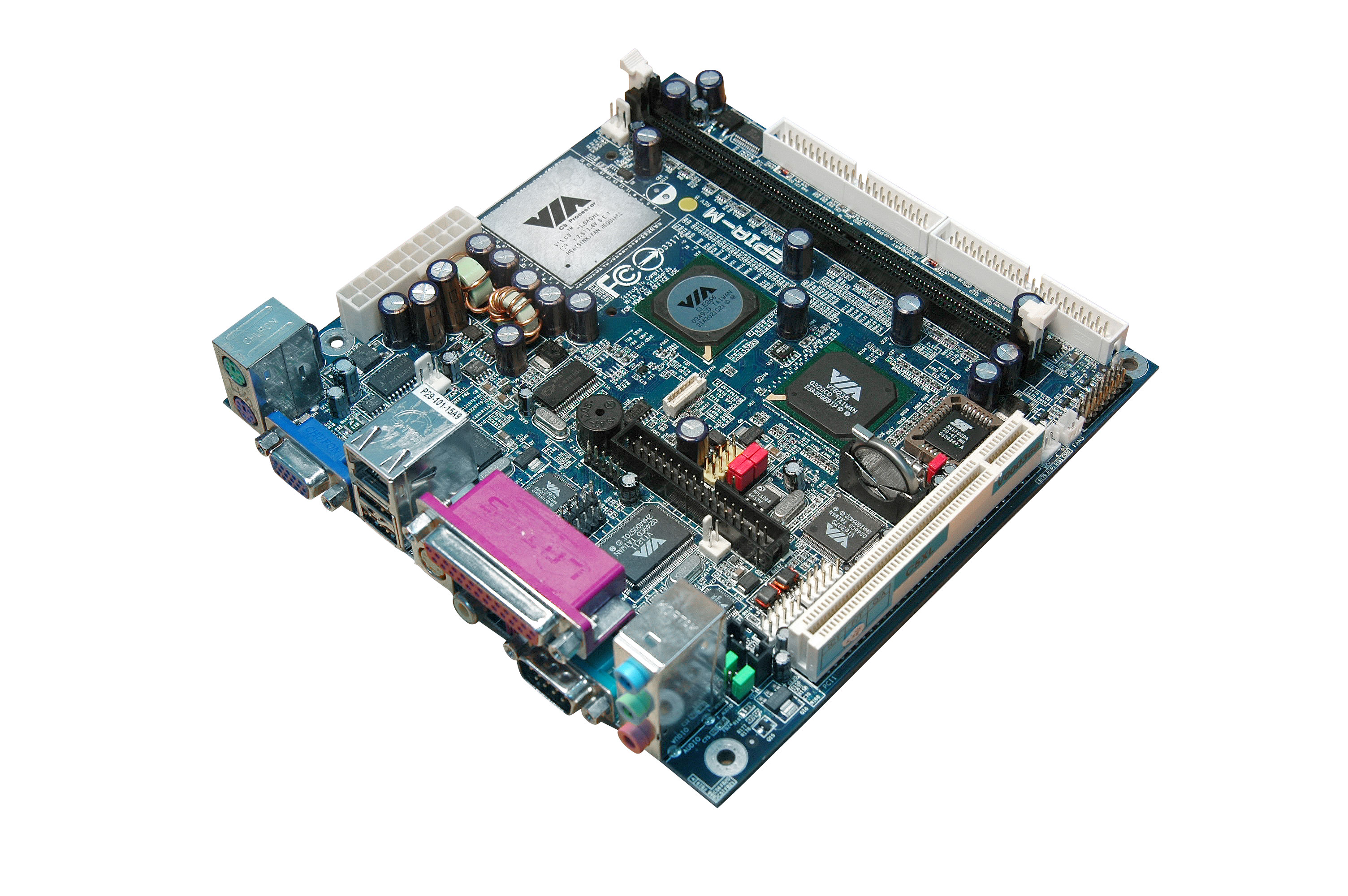 Launched in October of 2002, the VIA EPIA M Series Mini-ITX featured the Apollo CLE266 chipset.